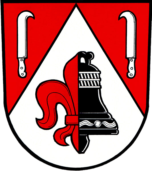 Coat of arms of Uhlířov village, Moravian-Silesian Region, Czech republic. Česky: Znak Uhlířova, Moravskoslezský kraj. (Blason: V červeném štítě stříbrný hrot provázený dvěma přivrácenými stříbrnými vinařskými noži. V něm půl červené lilie přiléhající k polovině černého zvonu.)